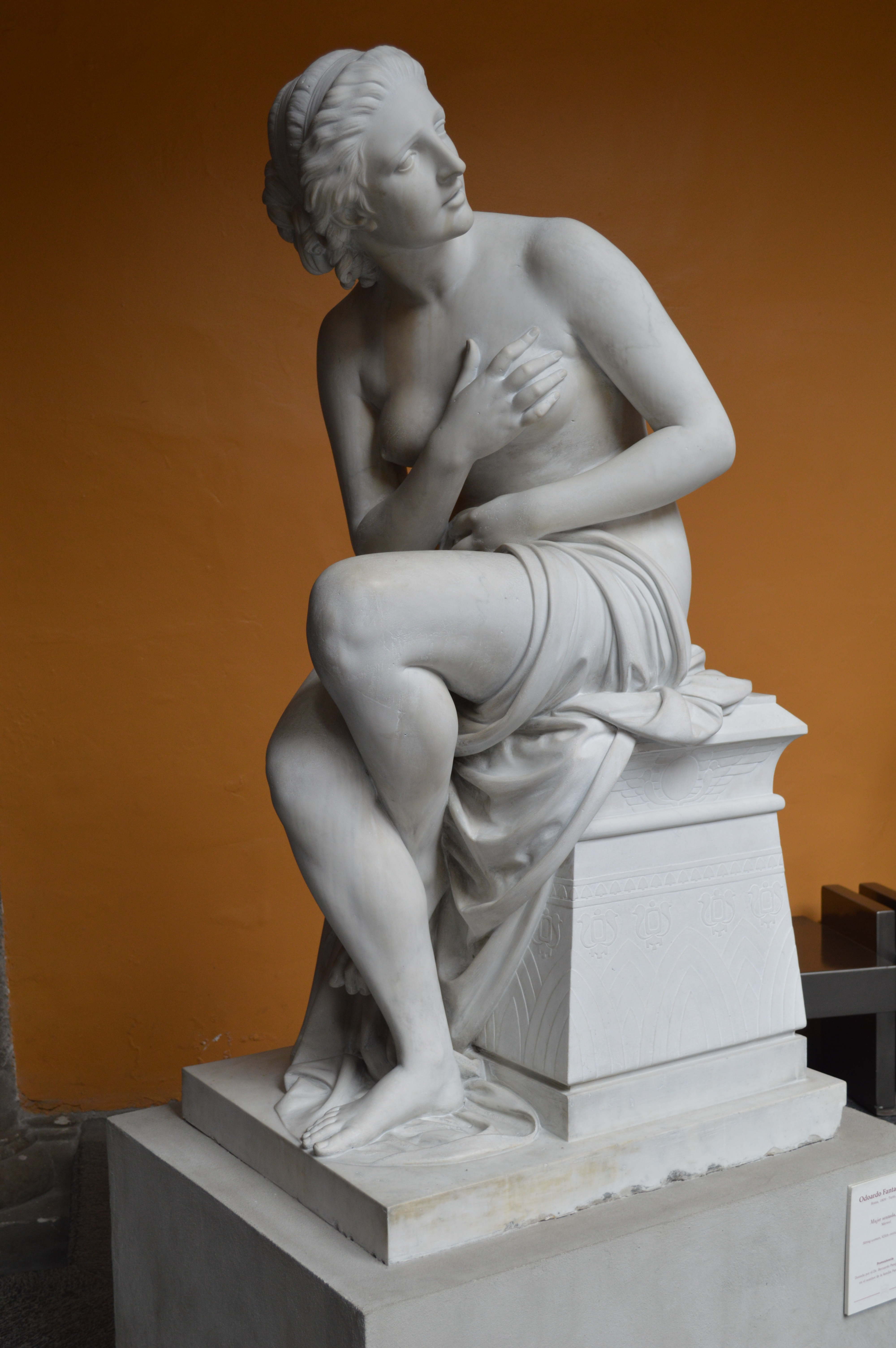 Mujer sentada by Odoardo Fantacchiotti (19th century) at the Museo Nacional de San Carlos in Mexico City